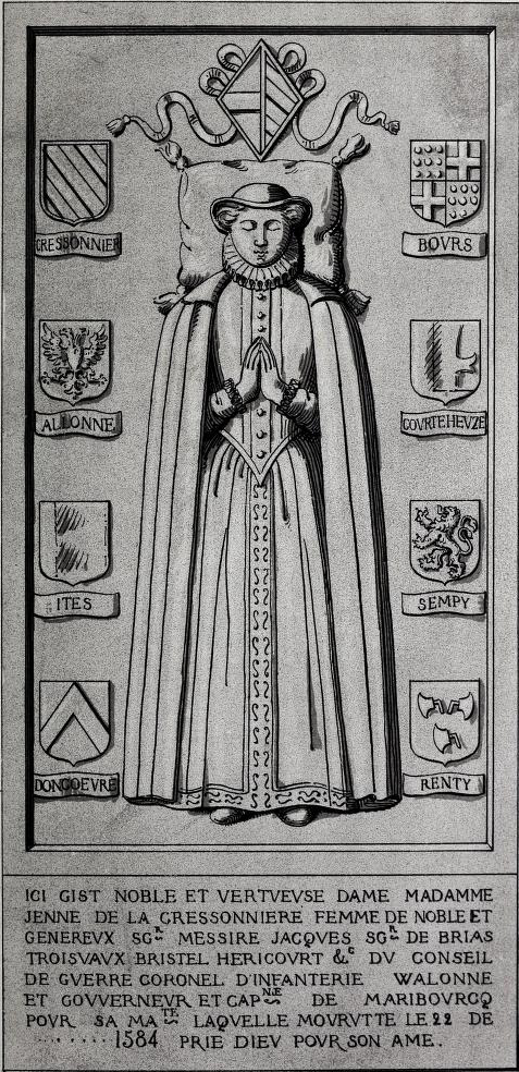 Tombe de Jeanne de La Cressonnière, épouse de Jacques de Brias, en l'église de Marienbourg